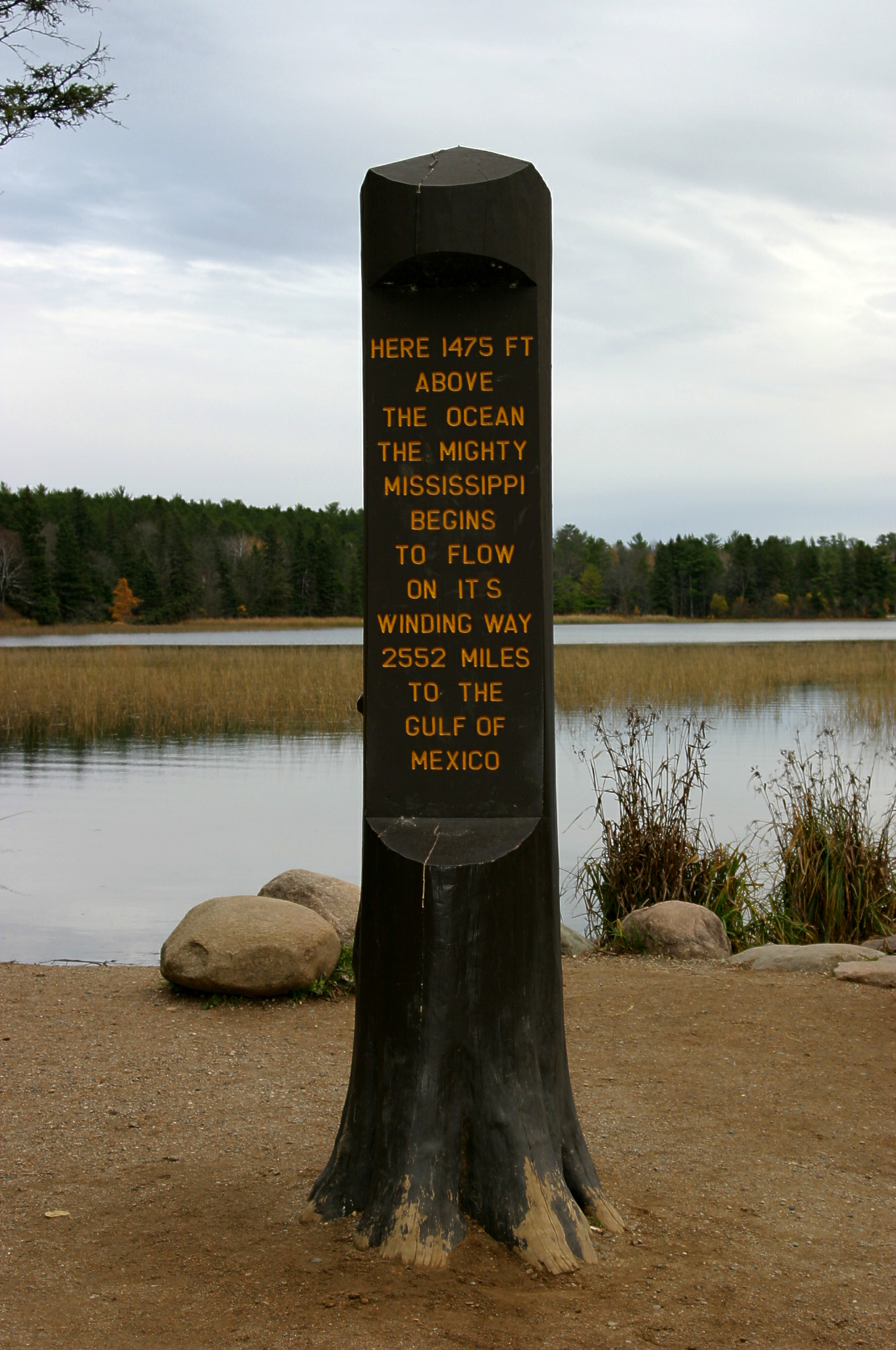 Signpost marking the Mississippi River headwaters in Itasca State Park